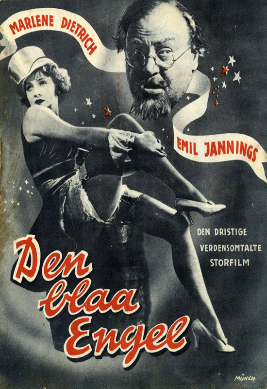 Den blaa Engel (The Blue Angel) (film) Danish poster Marlene Dietrich, Emil Jannings UFA/Paramount Pictures